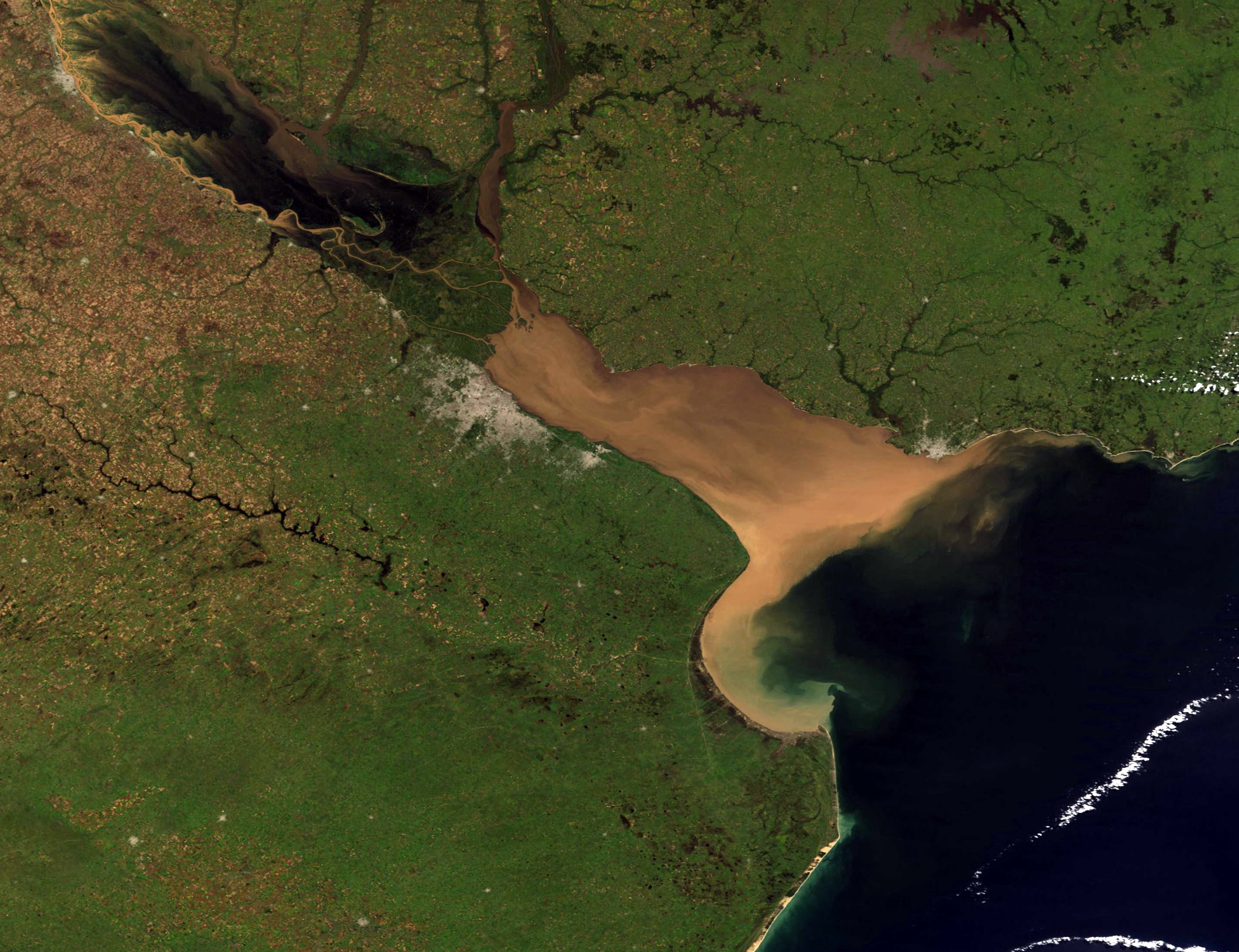 Image captured by MODIS sensor on NASA's Terra satellite on April 12, 2007. Shows the Río de la Plata thick with sediment during a time of flooding on the lower Paraná River. The high flow is also pushing more sediment out into the hook-shaped Samborombón Bay on the south side of the estuary. Also visible is the lower Uruguay River, Buenos Aires, and Montevideo.